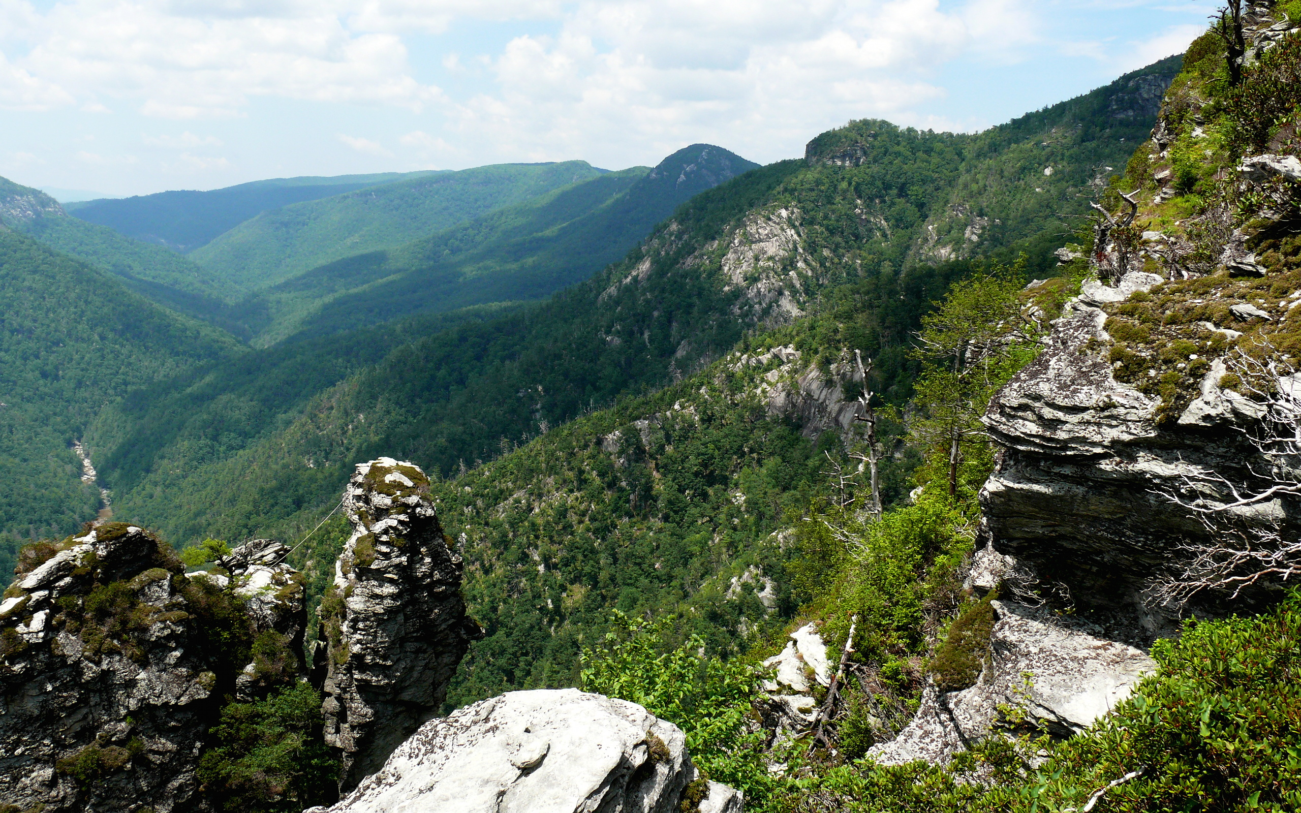 Looking north from Apricot Buttress on the western flank of a mountain called The Chimneys - part of the Jonas Ridge, which forms the eastern rim of the Linville Gorge. The Linville River can be seen in the bottom of the gorge on the left in the photo, and the southern face of Table Rock mountain can be seen on the right.Photo taken with a Panasonic Lumix DMC-FZ50 in Burke County, NC, USA.